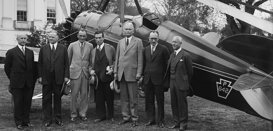 Group with aircraft outside White House; Herbert Hoover, 2nd from left, Charles Adams, right